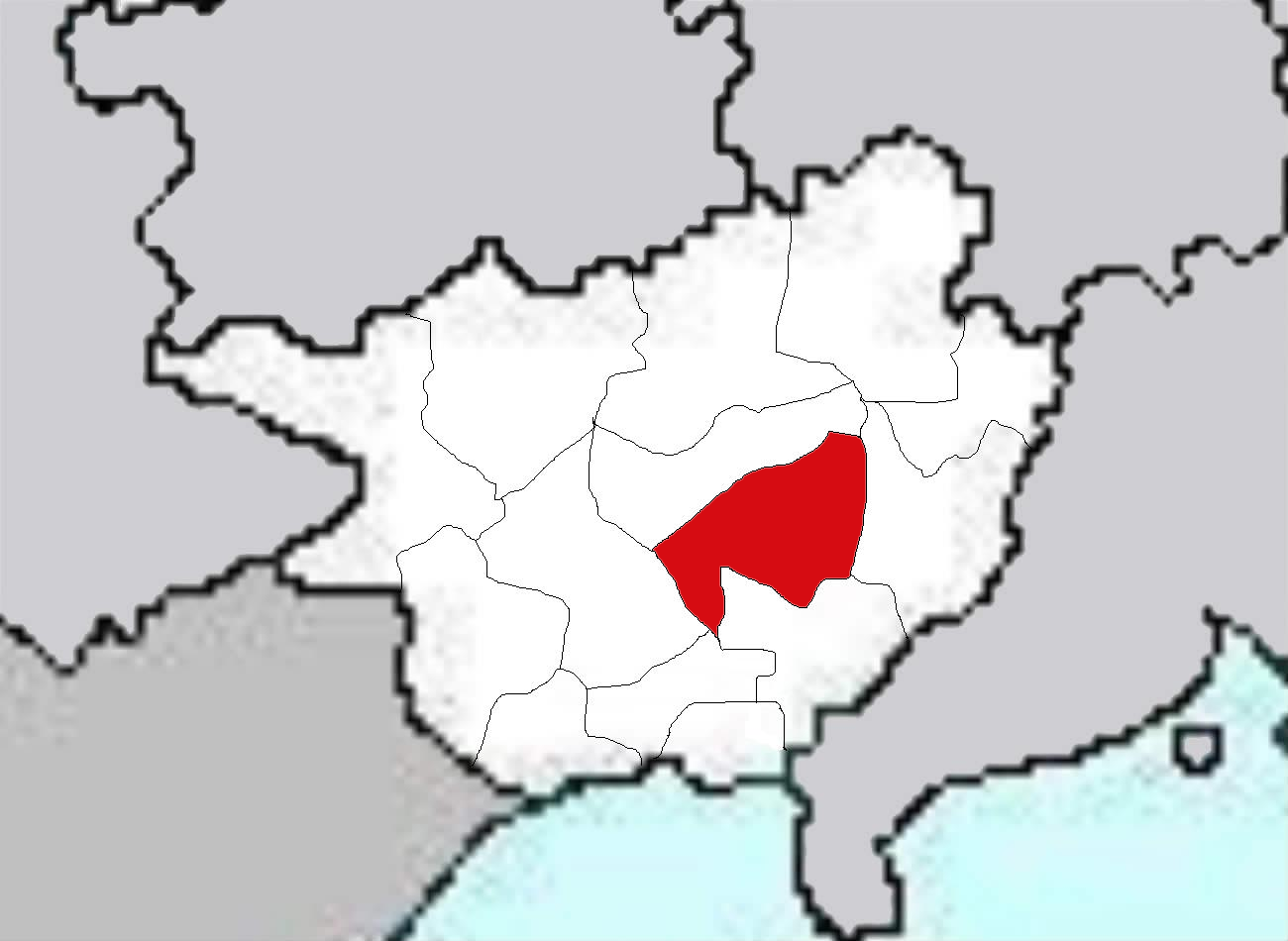 Maps of Guangxi Autonomous Region of China.